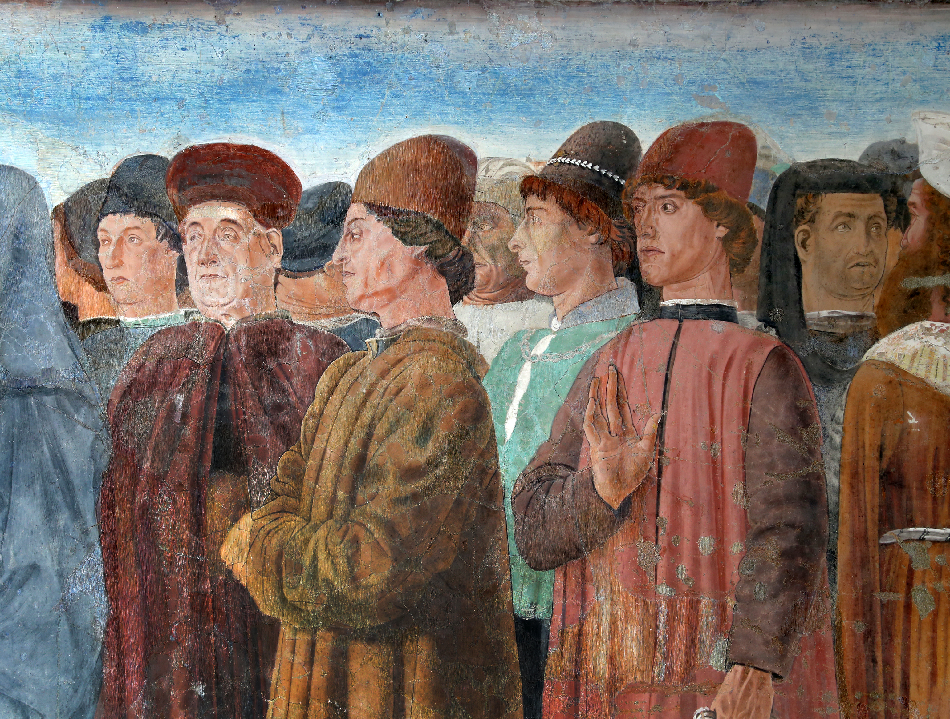 Cappella Mazzatosta